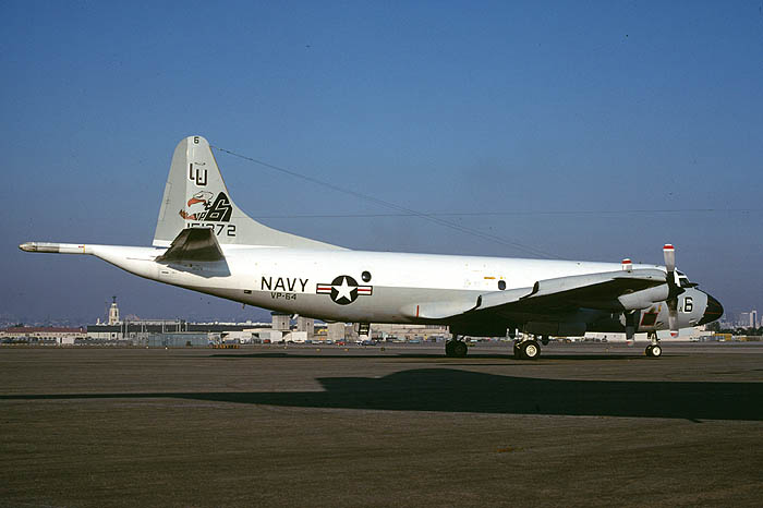 VP-64 (LU 6) P-3A (BuNo 151372) at NAS North Island, 19 November 1983. Photographed by Robert Lawson. Repository: San Diego Air and Space Museum Archive